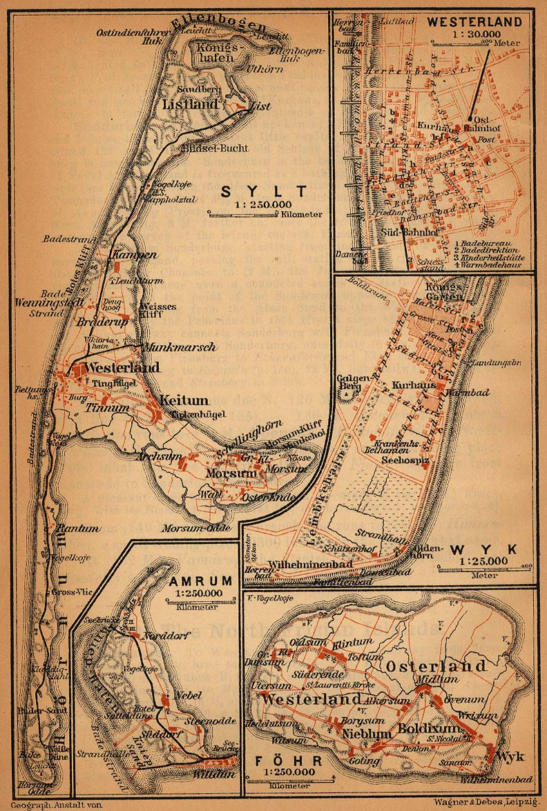 North Frisian Islands (Amrum, Föhr, Sylt)